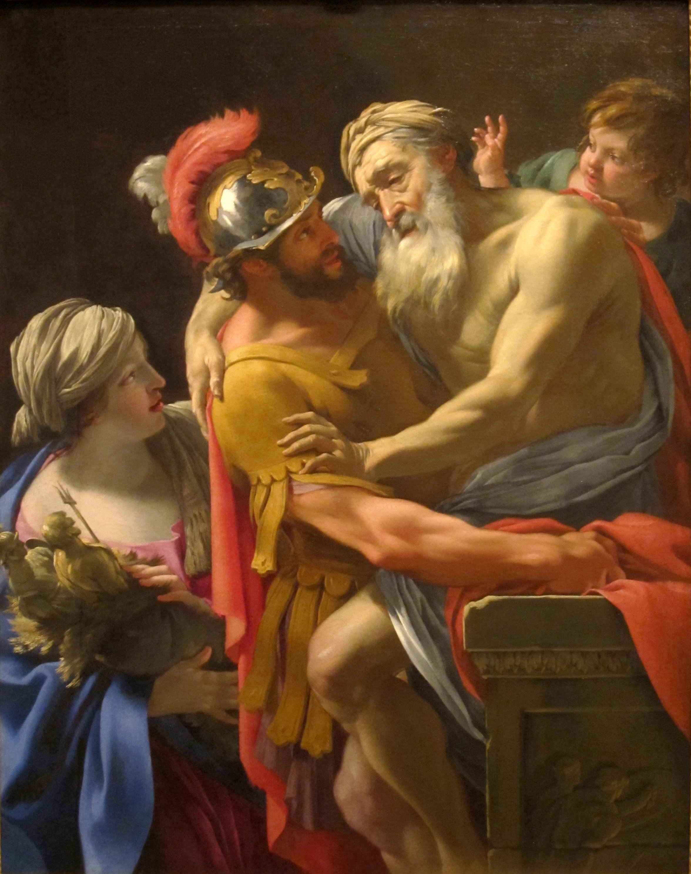 Aeneas and his Father Fleeing Troy, oil on canvas painting